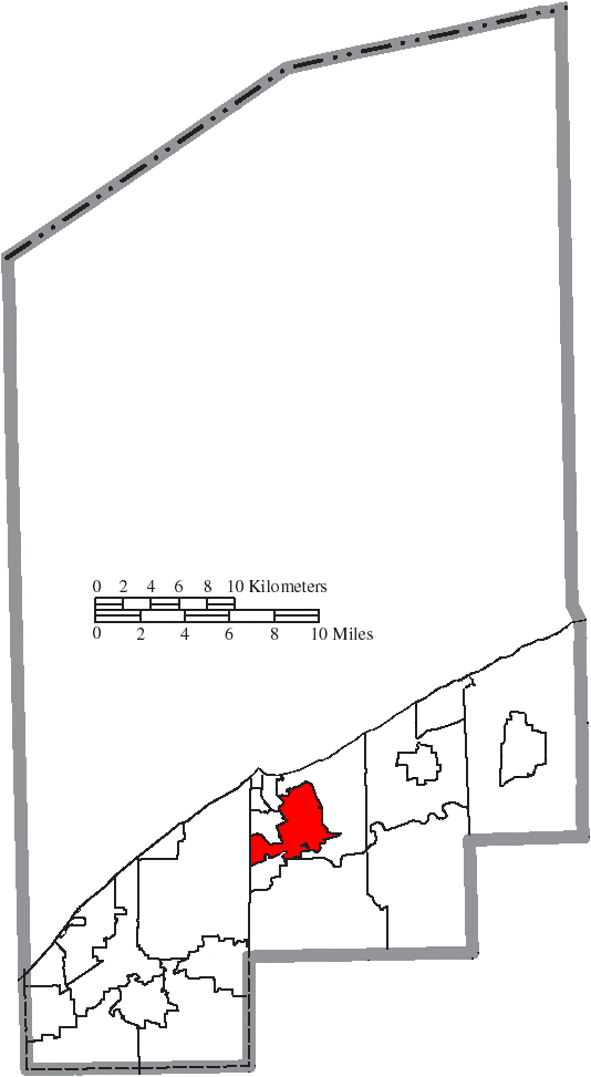 Map of the municipal and township boundaries of Lake County, Ohio, United States, as of the 2000 census, with the location of the city of Painesville highlighted. Township borders are shown only in unincorporated areas in order to differentiate incorporated and unincorporated areas more clearly.